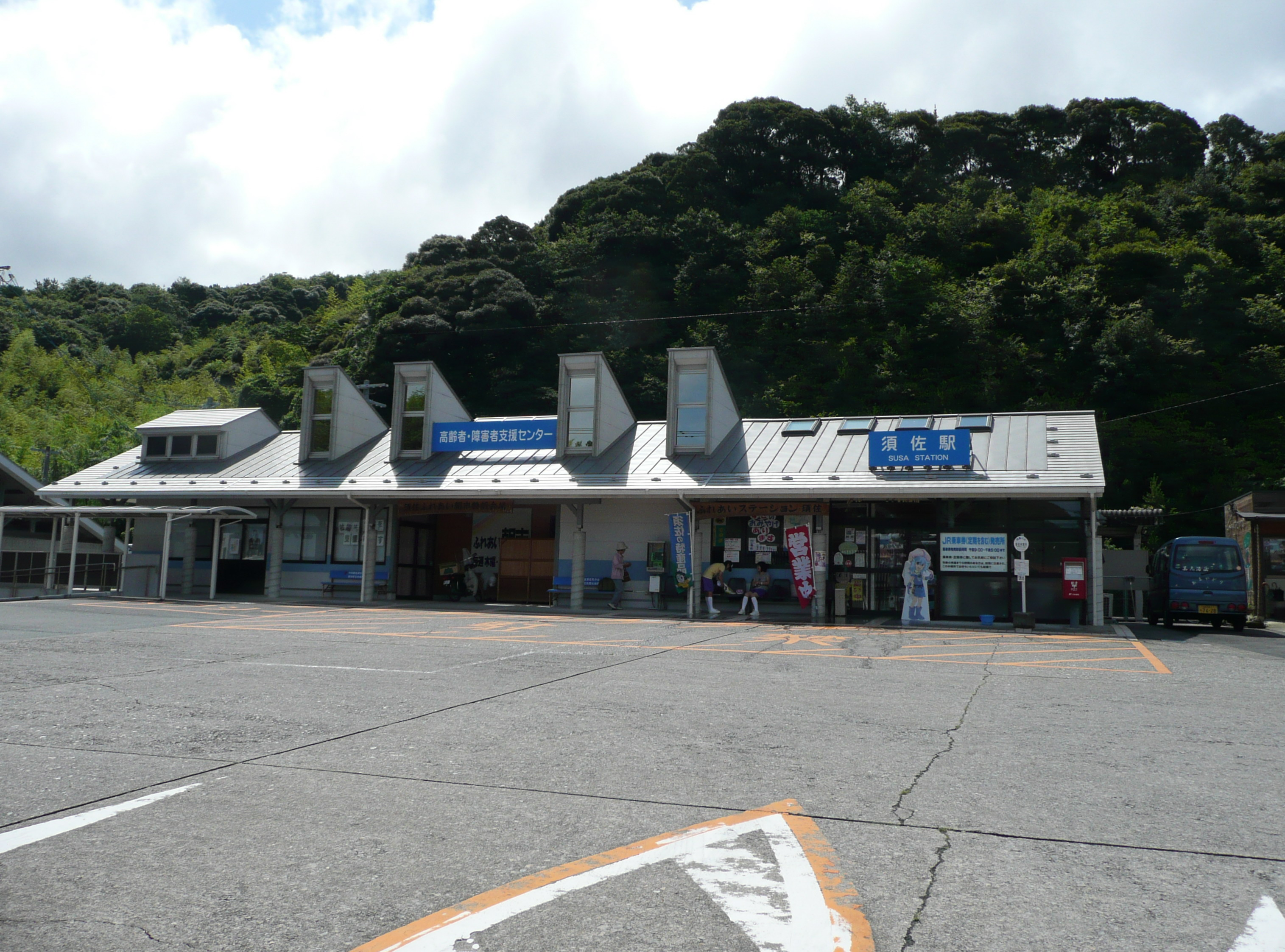 須佐駅舎